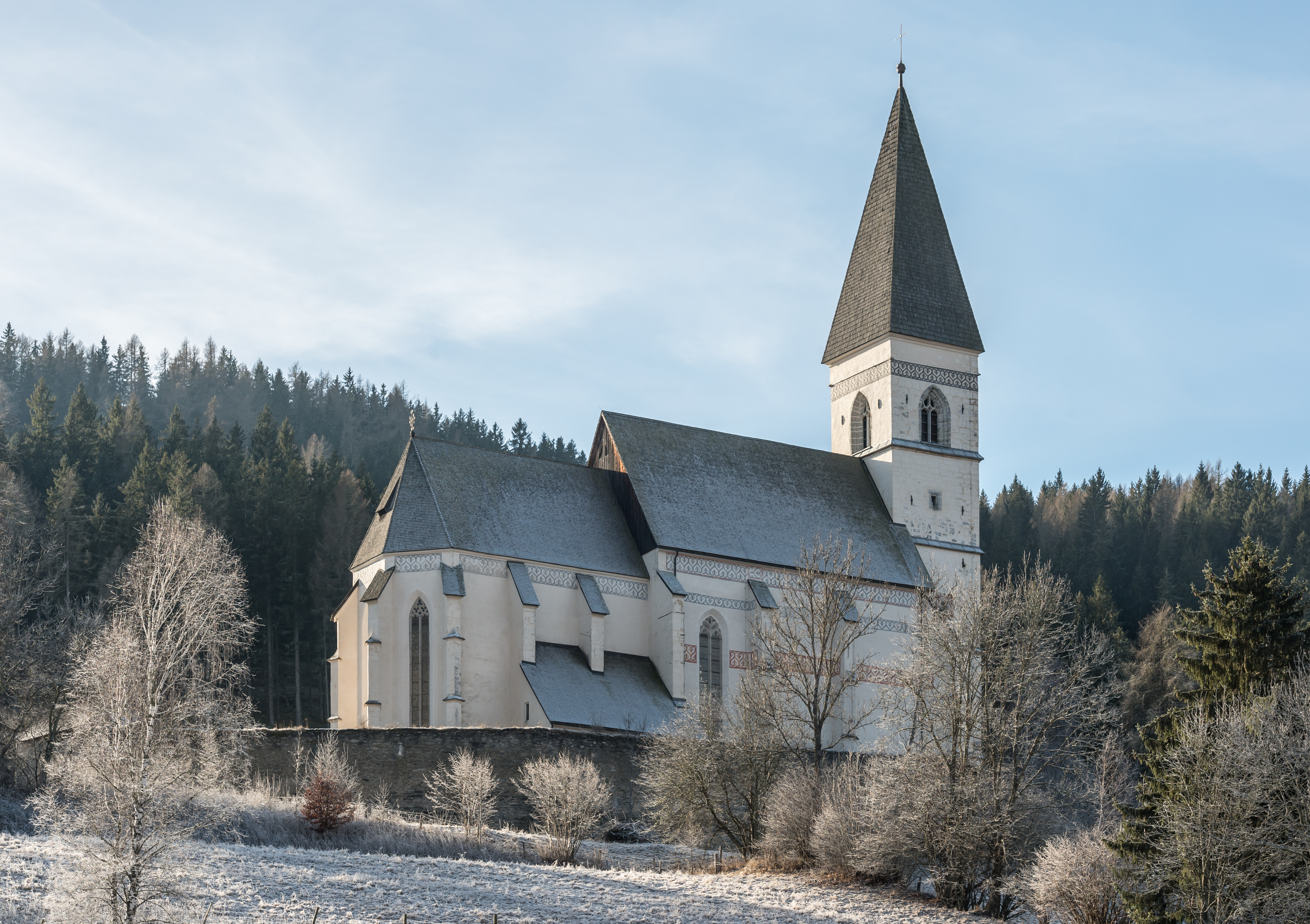 Subsidiary and pilgrimage church Saint Wolfgang in Grades, market town Metnitz, district St. Veit an der Glan, Carinthia, Austria, EU